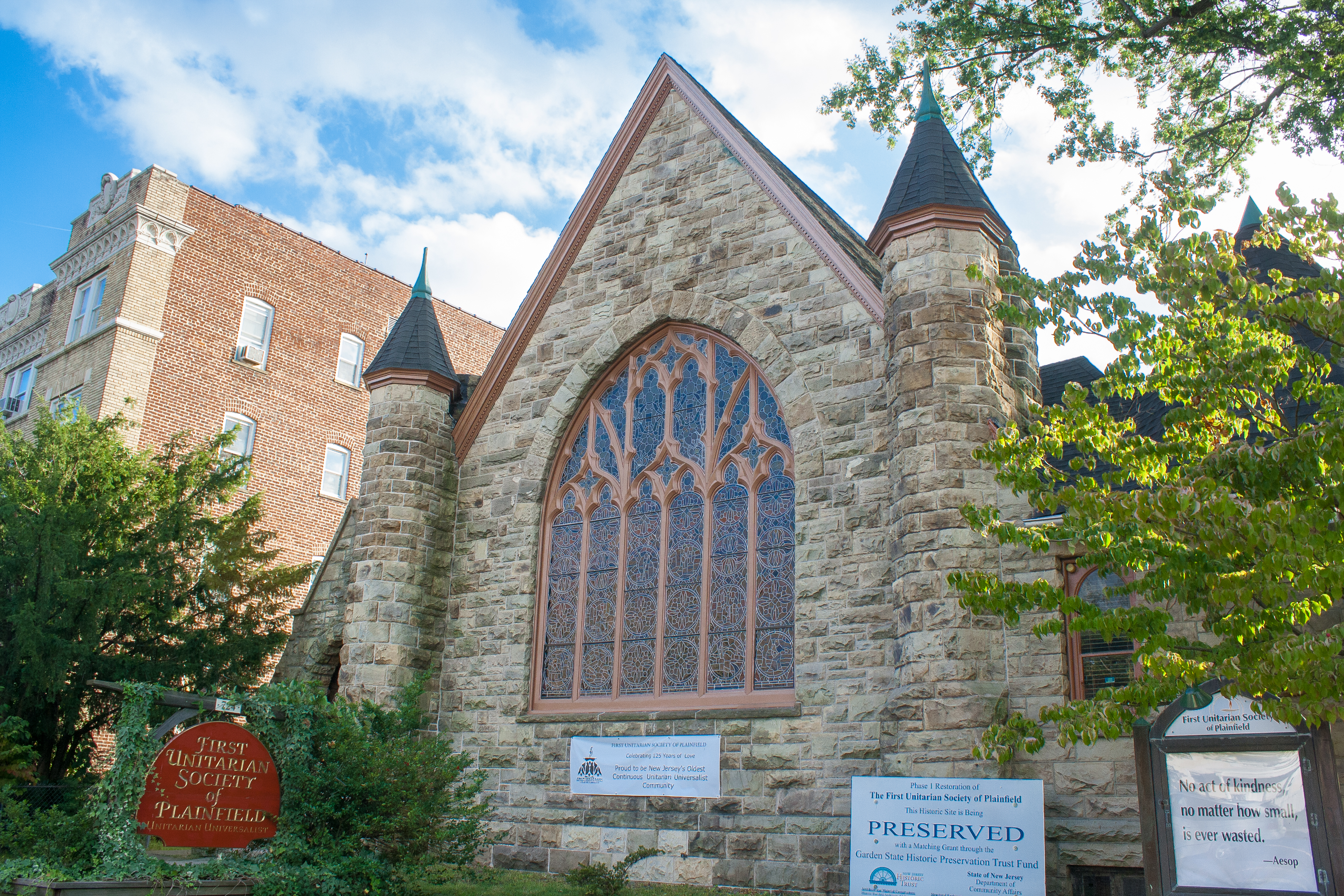 All Souls Church, 724 Park Ave. Plainfield